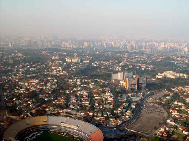 aerial photo of the Cícero Pompeu de Toledo stadium, known as Morumbi and Jardim Leonor neighbourhood.